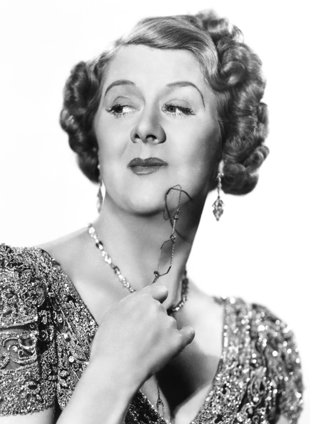 Publicity photo of Ruth Donnelly.